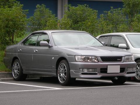 Nissan GF-GC35 Laurel Club S